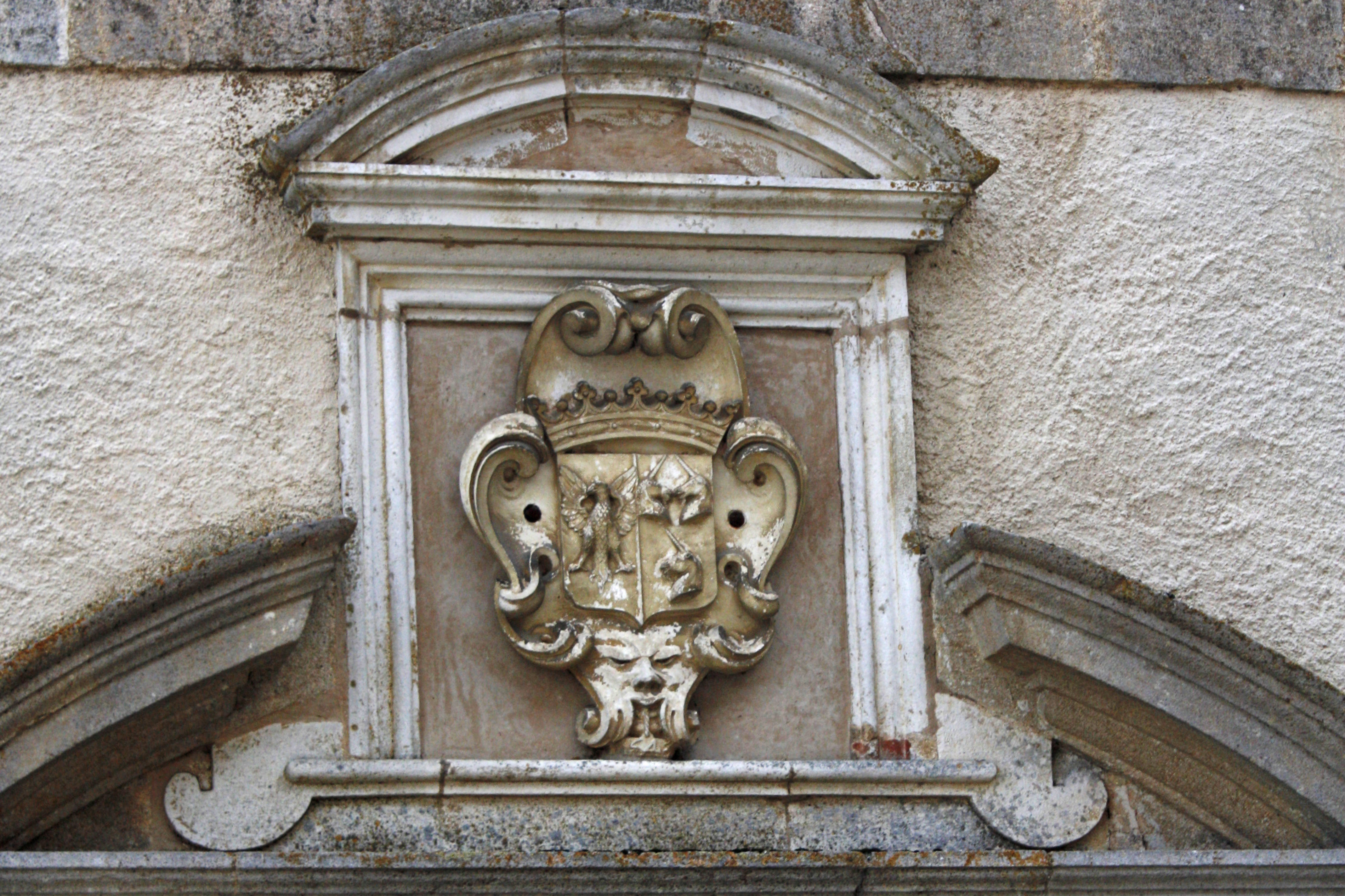 The arms of the family De Vienne: an eagle for Charles De Vienne and three unicorns for his wife.